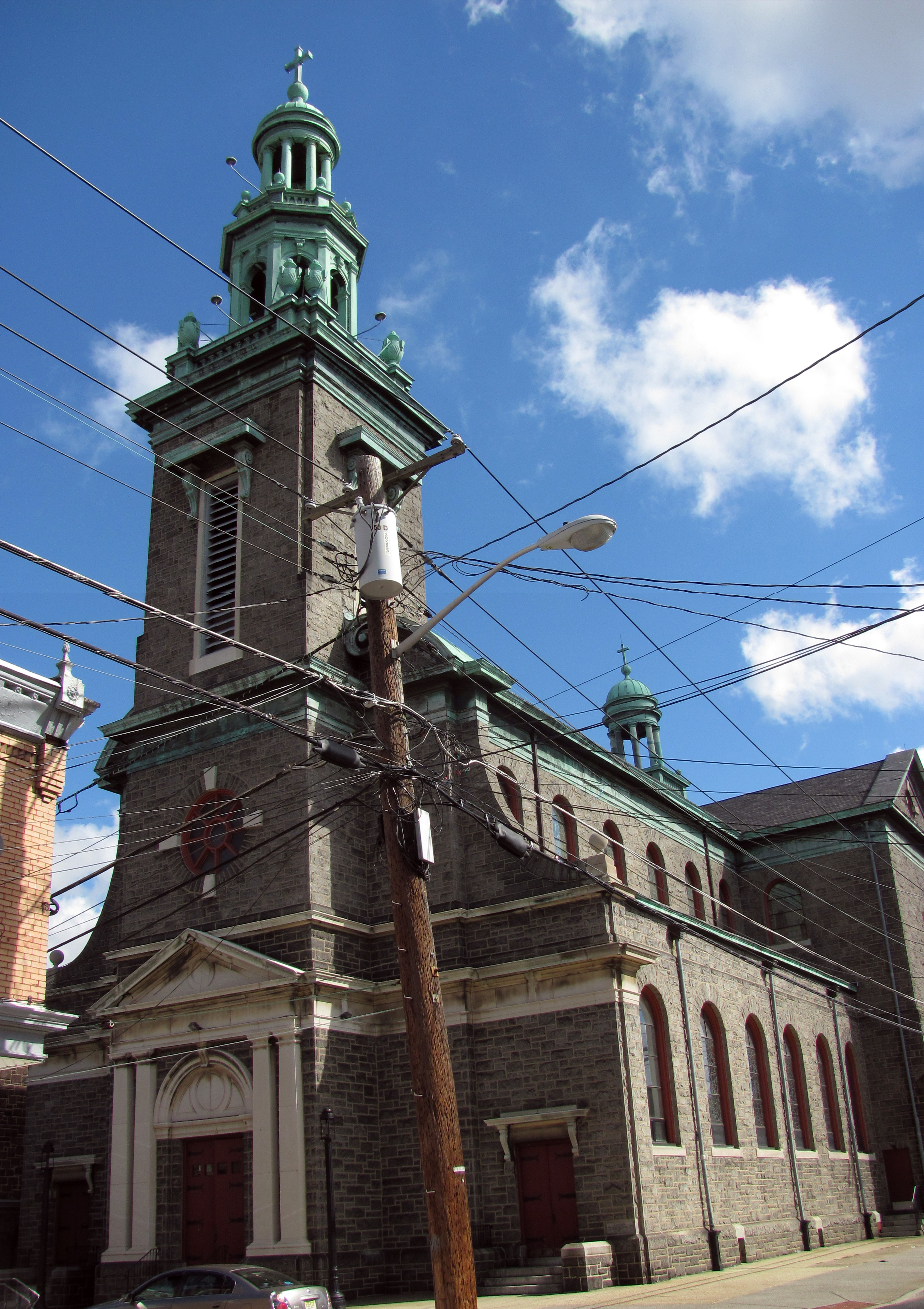 View of St. Joseph Polish Catholic Church, 1010 Liberty St. Camden, New Jersey, looking northeast from Mechanic Street.